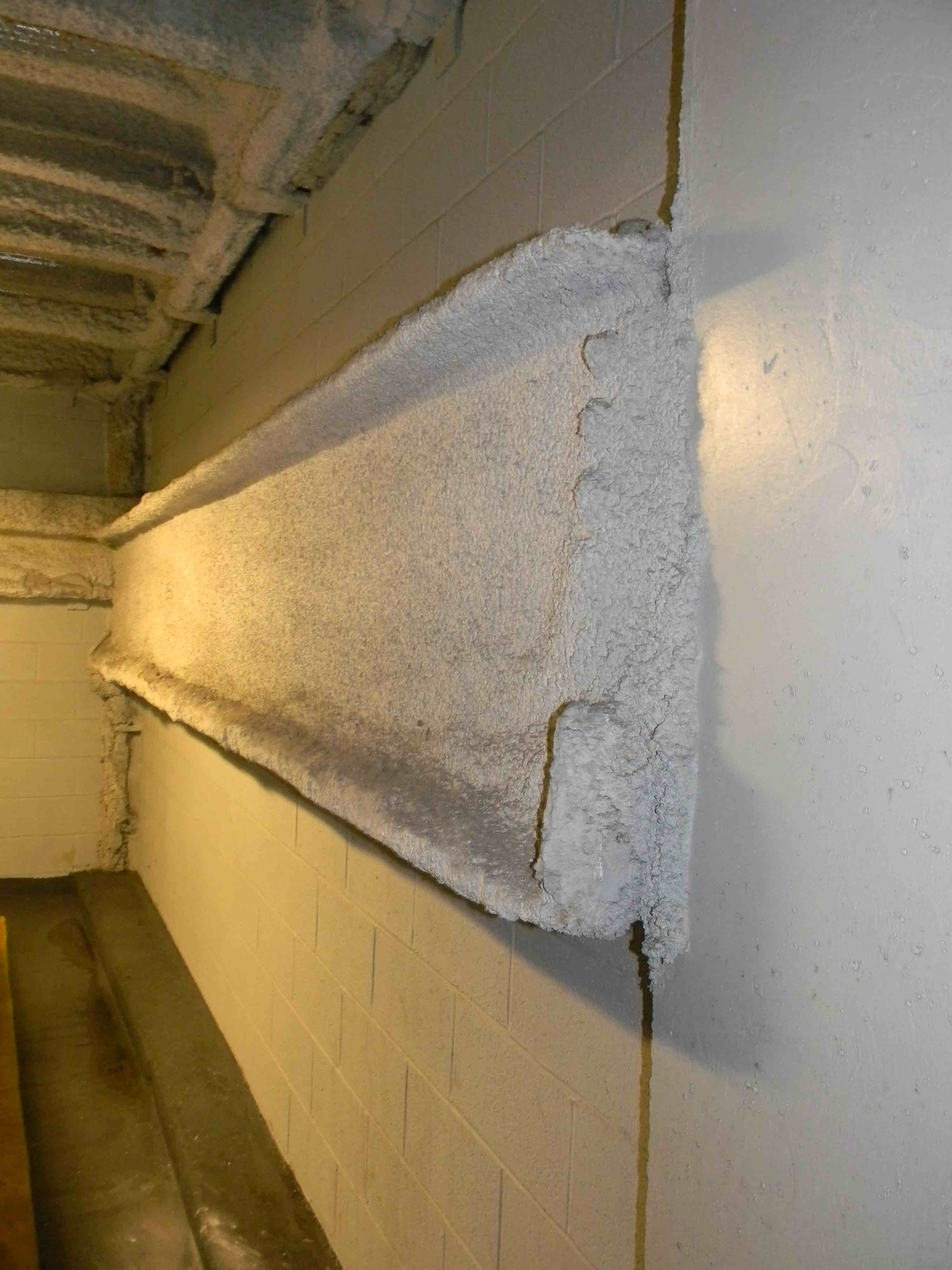 5th Floor Parking: Cementitious spray fireproofing on structural steel elements.